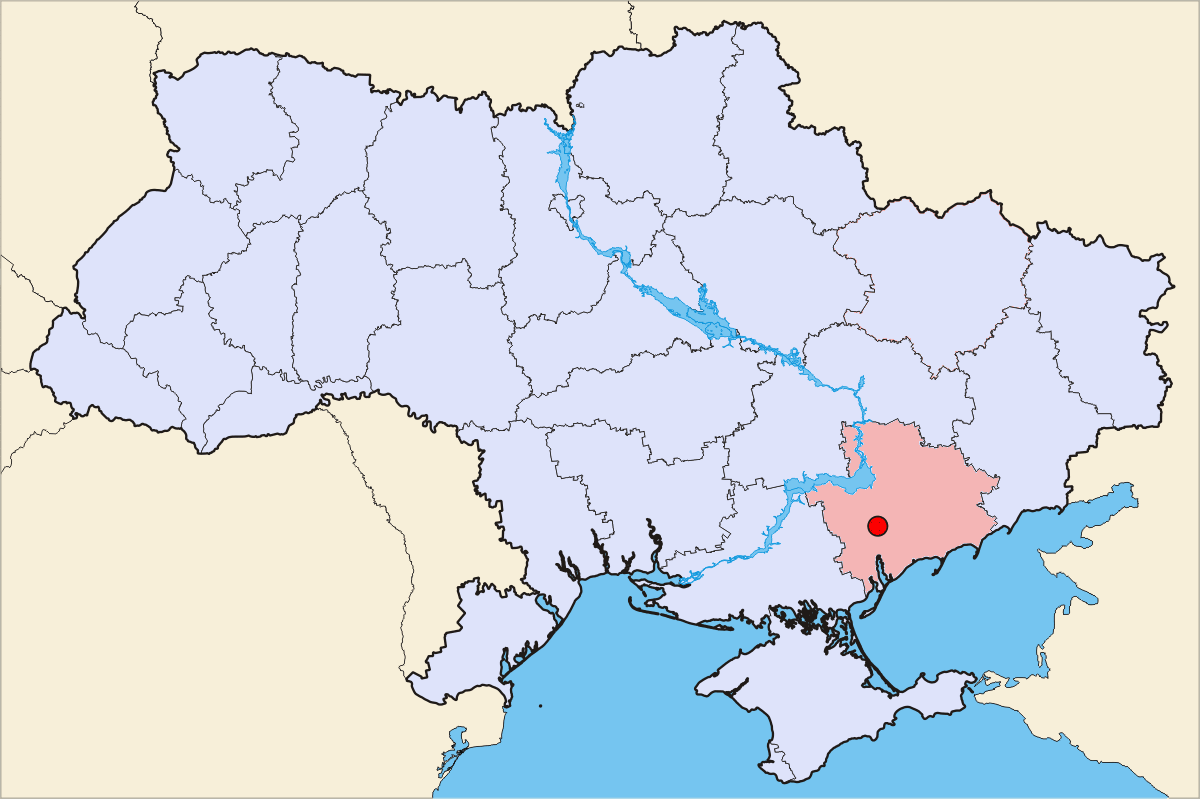 Description = Melitopol geographical position Source = own work, Skluesener Date = 22.01.2006 Author = User:DDima Credits = Colours chosen according to a map of steschke